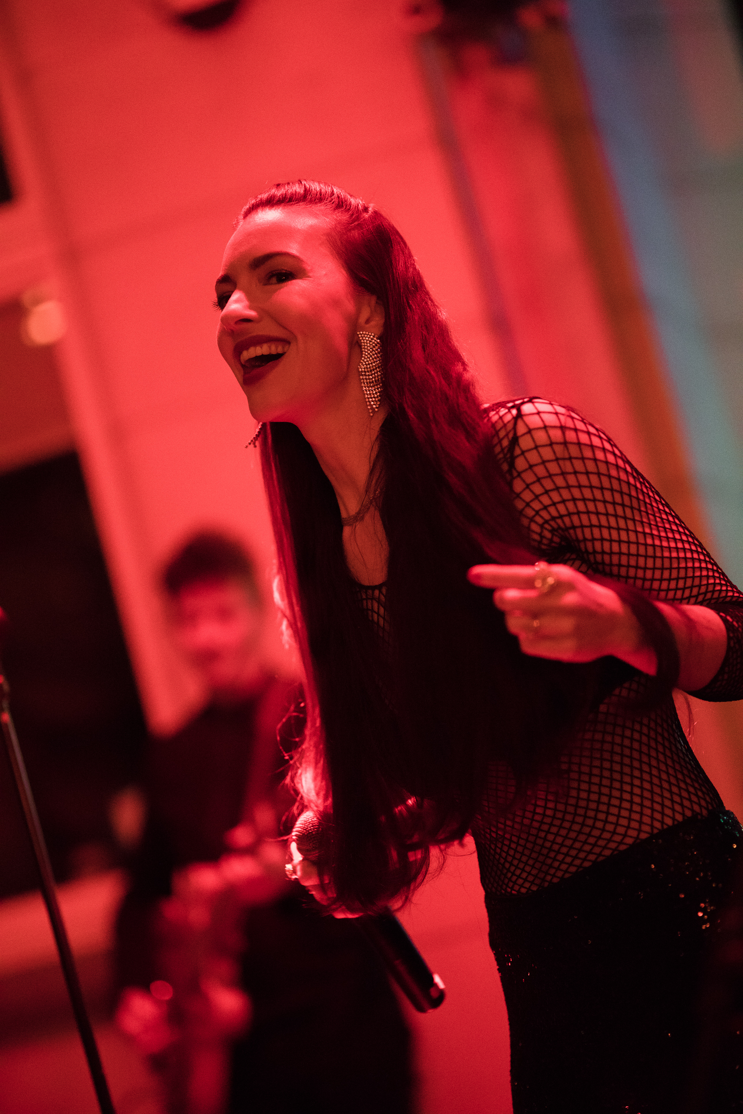 Chrysta Bell during the We Dissolve tour, Warsaw 2018.